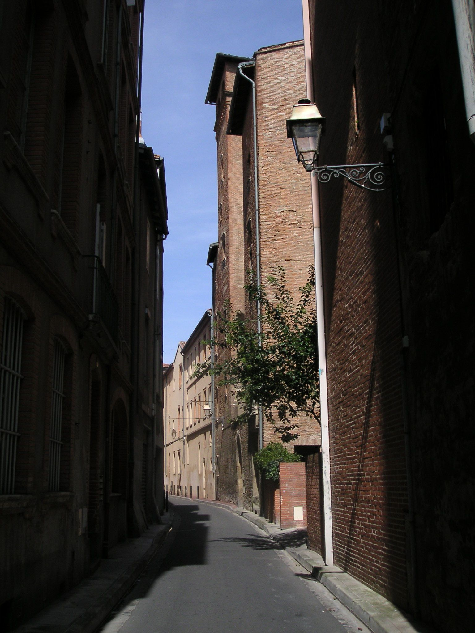 A street in Toulouse, France.